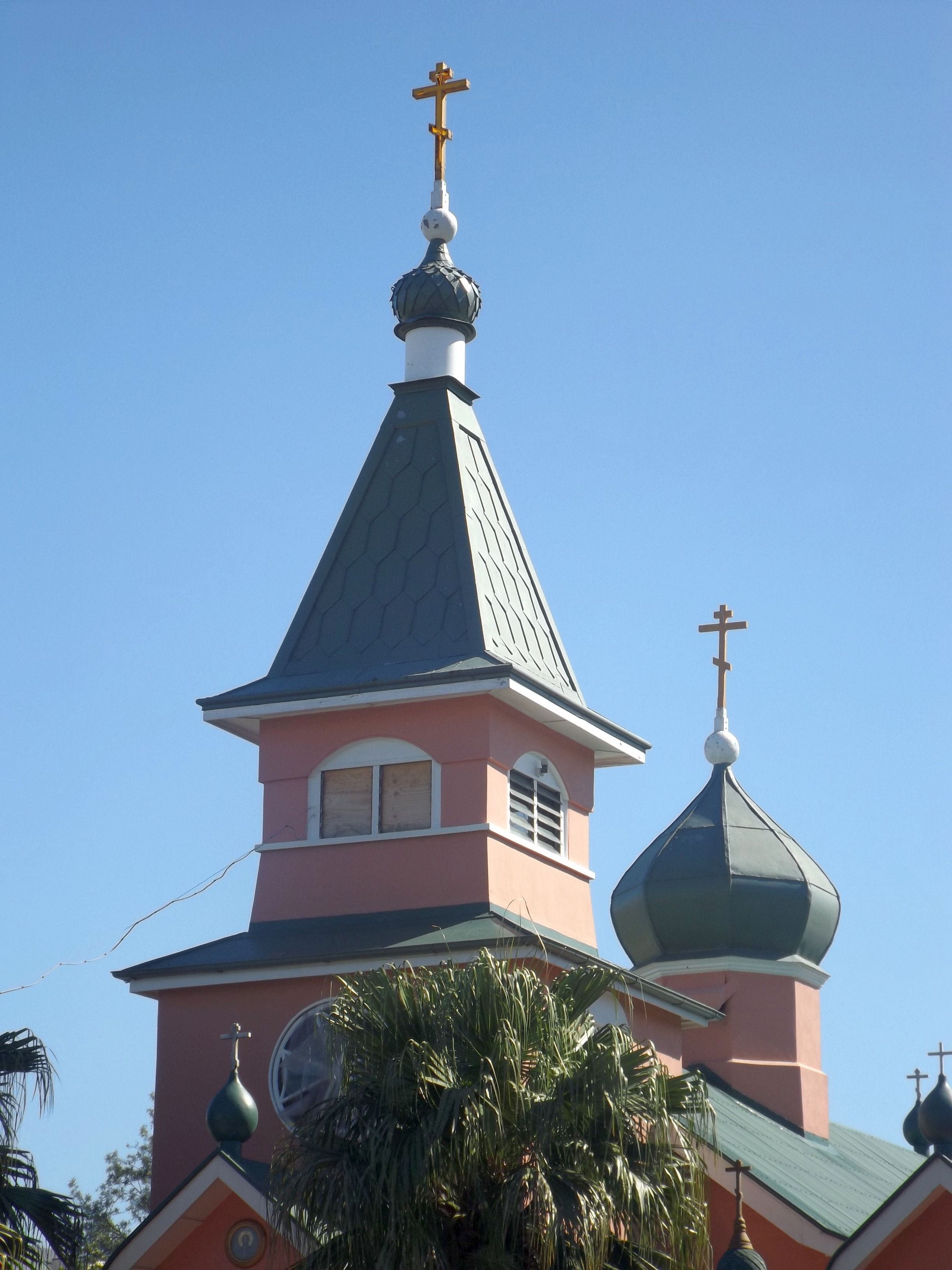 Photo of the spire of St Nicholas Russian Orthodox Cathedral at Kangaroo Point, Brisbane, Queensland, Australia.